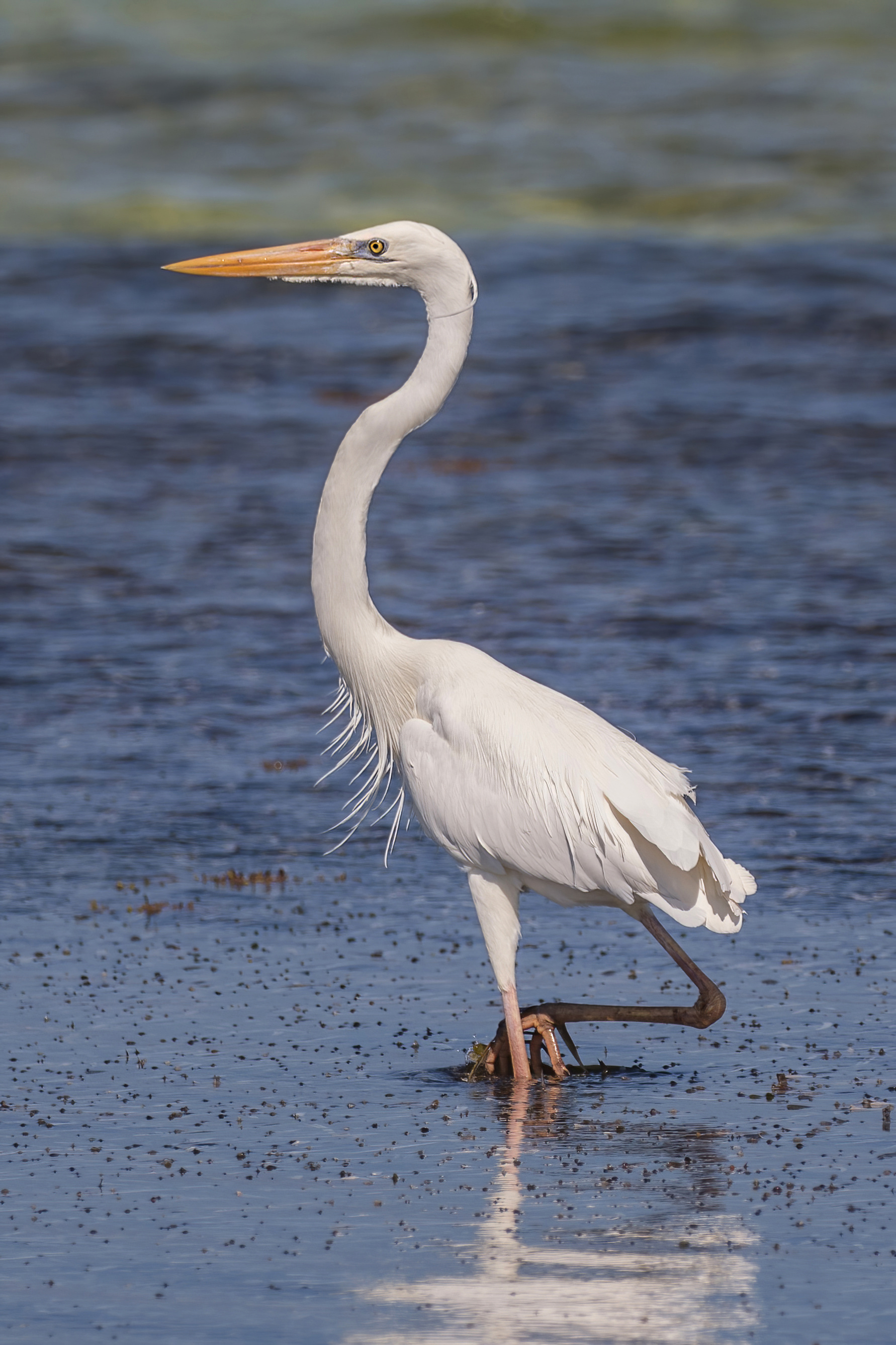 Great blue heron (Ardea herodias occidentalis) - white form, Cuba